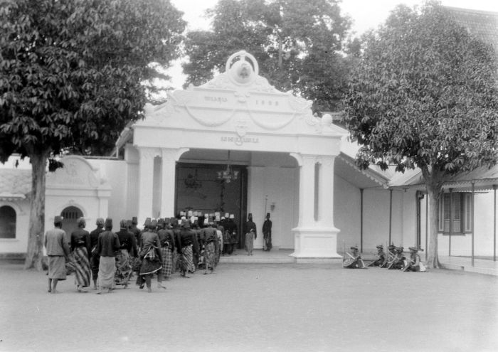 Gate of the palace of the sultan